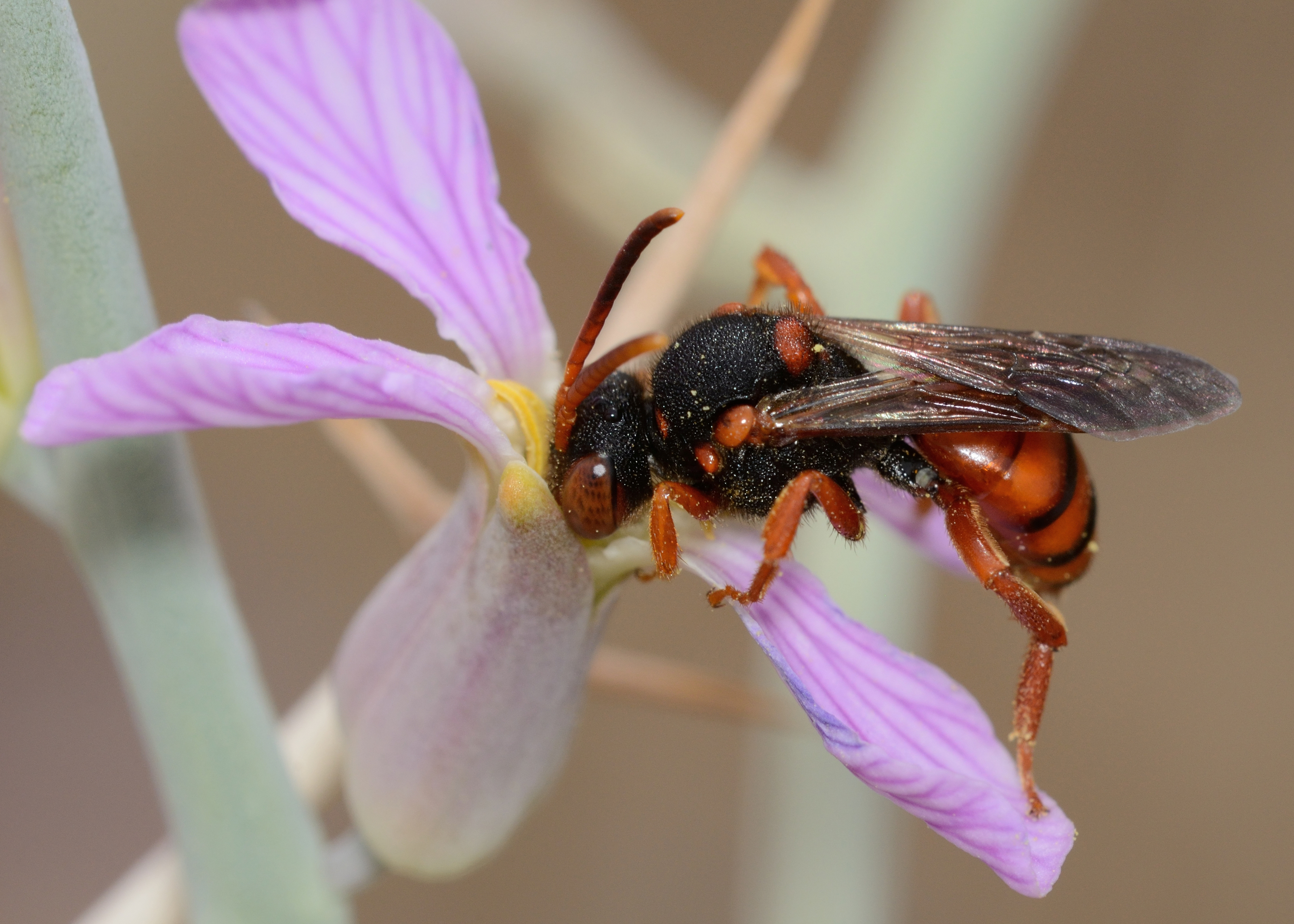 Nomada bifasciata Olivier 2811, female foraging on Zilla spinosa, Makhtesh Ramon, Israel, February 21, 2014. Det. Maximilian Schwarz 2015.